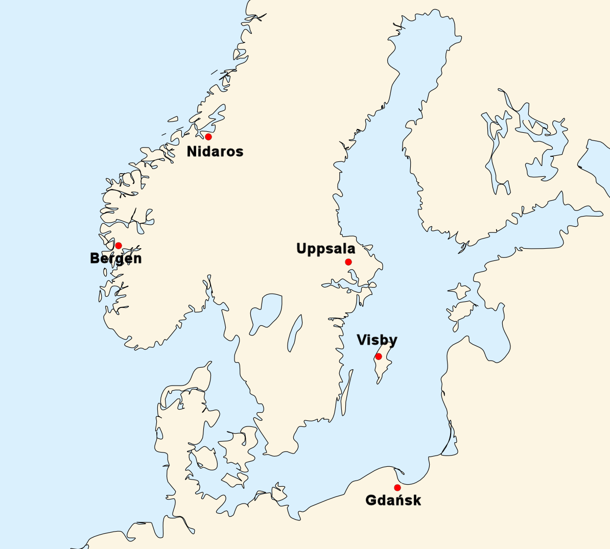 The map of Europe from the book Oko Jelenia